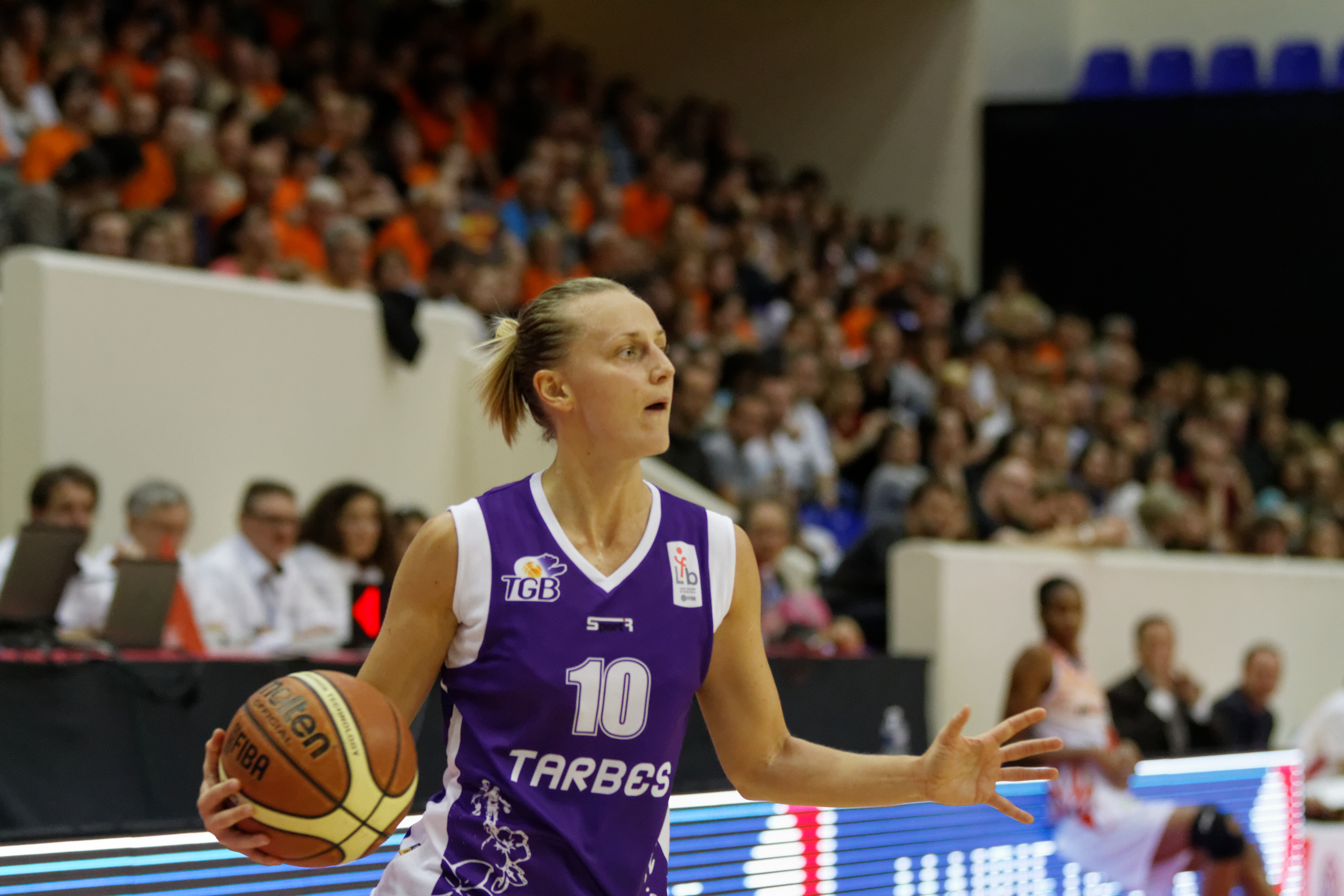 Open LFB, Charleville-Mézières - Tarbes, October 5th, 2013.